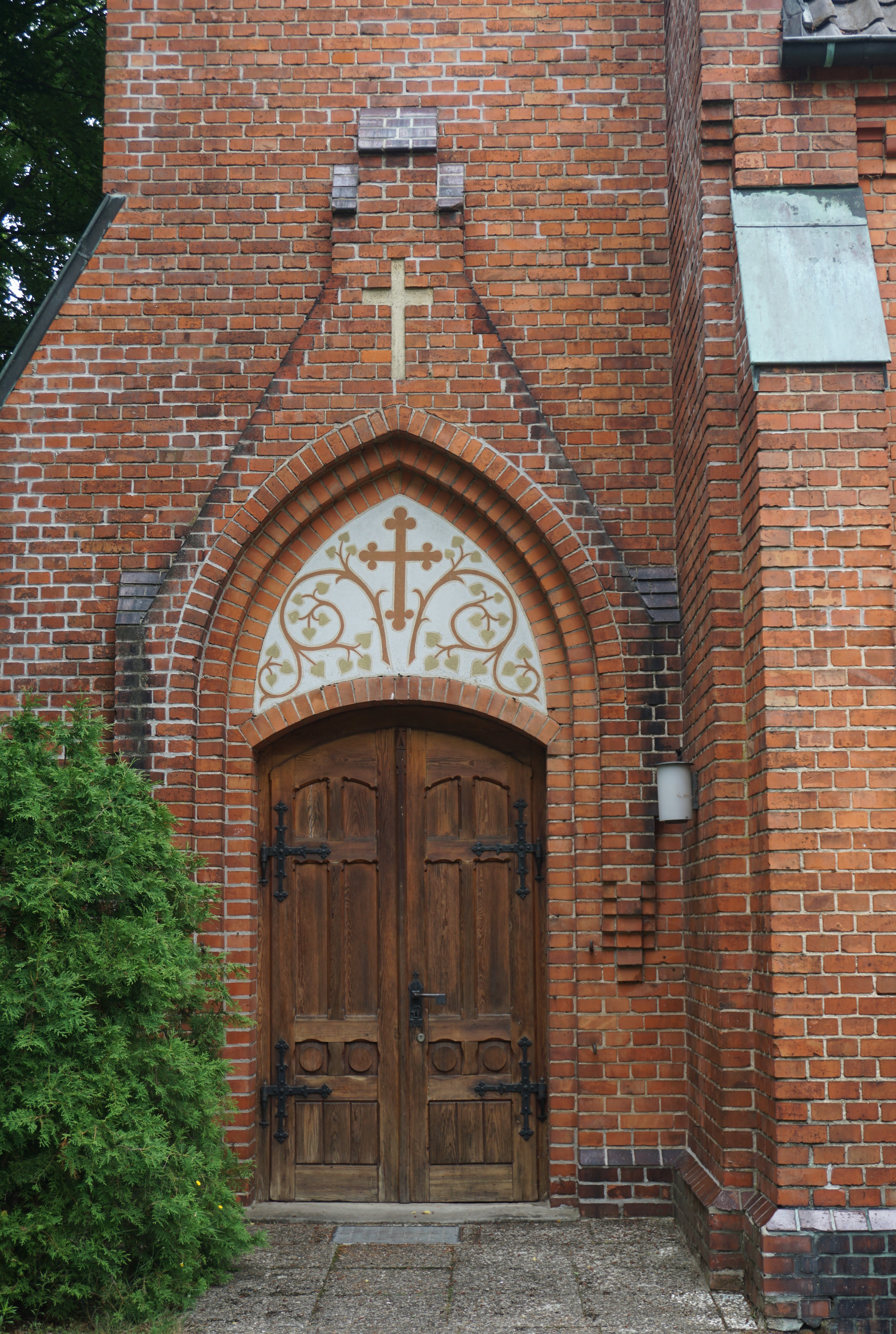 South entrance of the chapel of Höver in the community of Weste in the Lower Saxonian district of Uelzen.